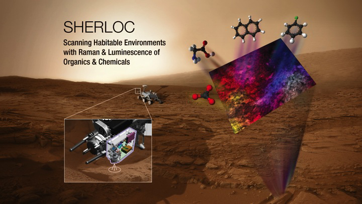 PIA18407: Ultraviolet Instrument for Mars 2020 Rover is SHERLOC This illustration depicts the mechanism and conceptual research targets for an instrument named Scanning Habitable Environments with Raman & Luminescence for Organics and Chemicals, or SHERLOC. This instrument has been selected as one of seven investigations for the payload of NASA's Mars 2020 rover mission. SHERLOC will be a spectrometer that will provide fine-scale imaging and use an ultraviolet laser to determine fine-scale mineralogy and detect organic compounds. . Mars 2020 is a mission concept that NASA announced in late 2012 to re-use the basic engineering of Mars Science Laboratory to send a different rover to Mars, with new objectives and instruments, launching in 2020. NASA's Jet Propulsion Laboratory, a division of the California Institute of Technology, Pasadena, manages NASA's Mars Exploration Program for the NASA Science Mission Directorate, Washington.